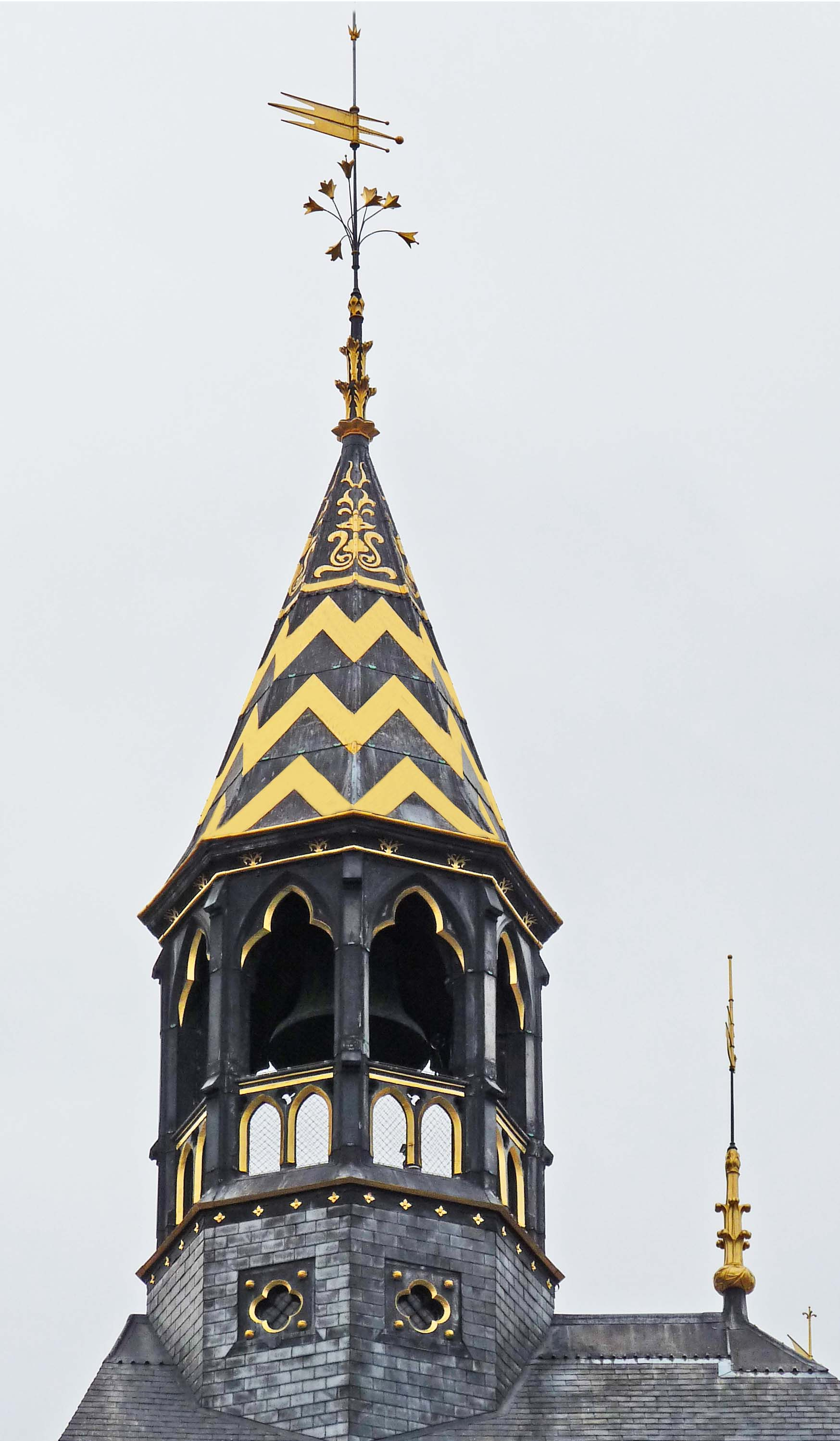 Little bell-tower lead and tiles covered.